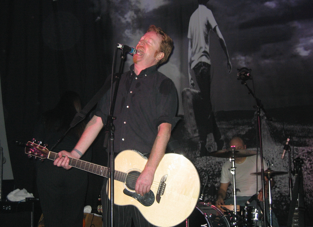 Flogging Molly's singer Dave King in New York (2005)